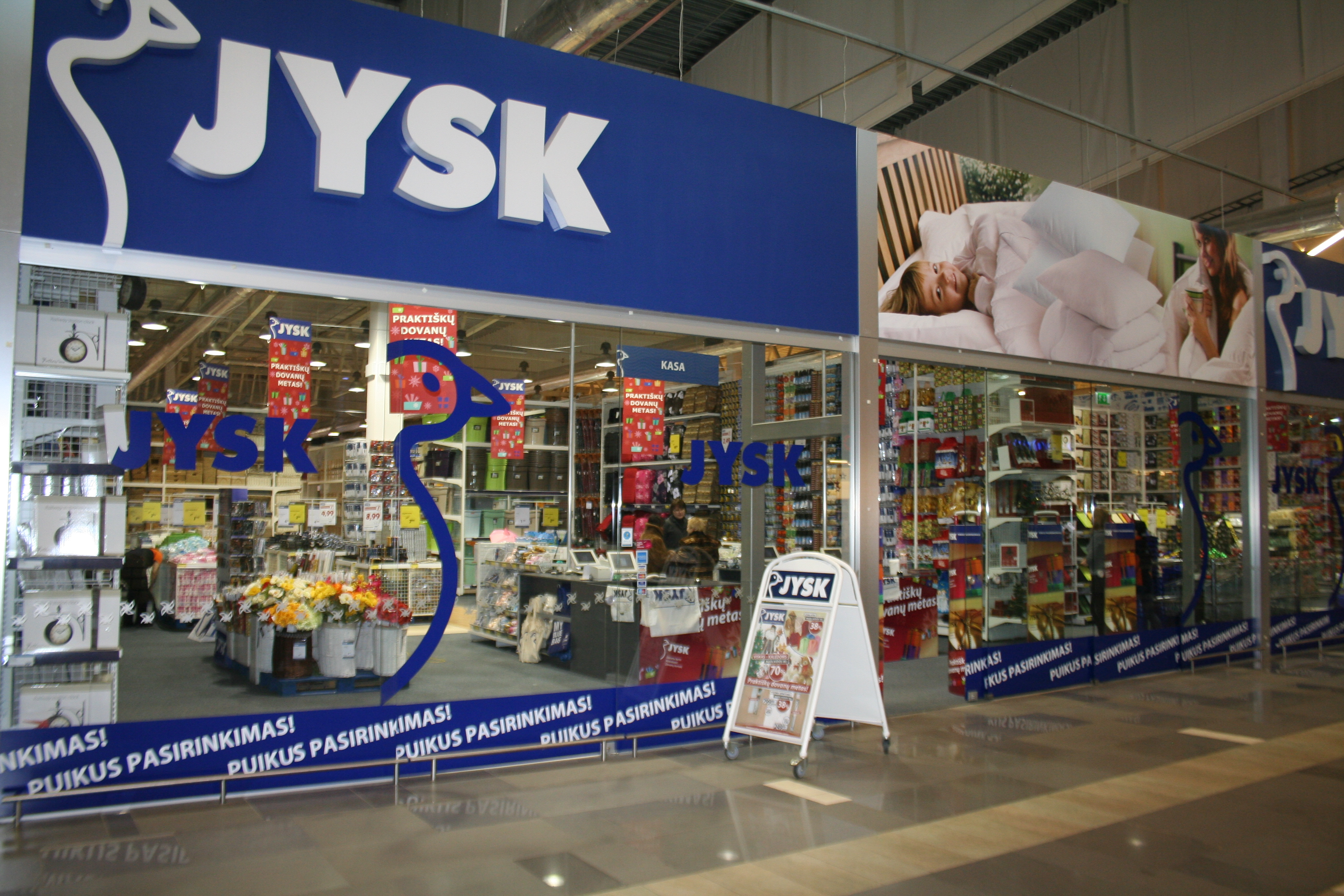 JYSK in Lithuania